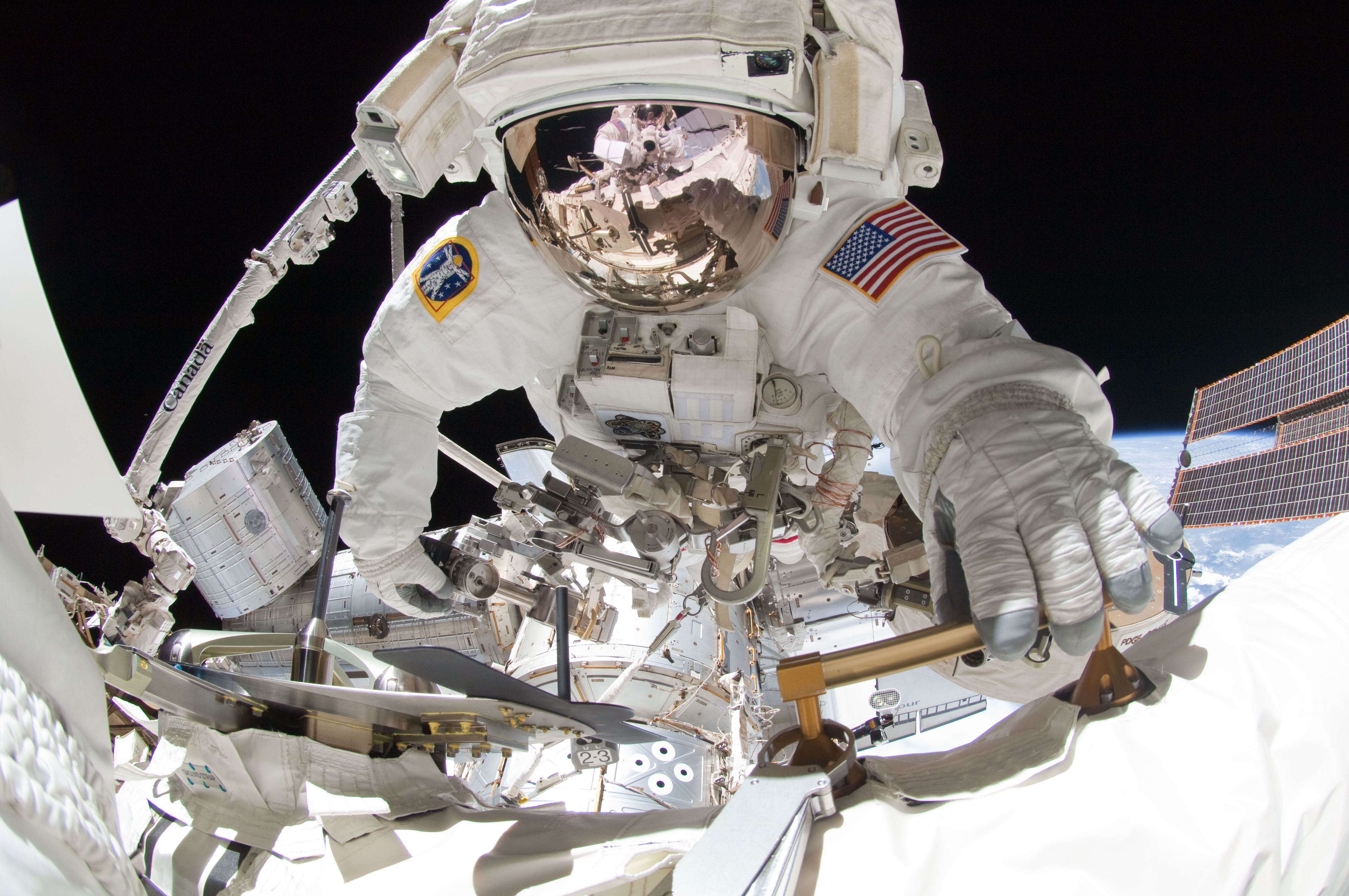 A fish-eye lens attached to an electronic still camera was used to capture this image of NASA astronaut Greg Chamitoff during the mission's fourth session of extravehicular activity (EVA) as construction and maintenance continue on the International Space Station. During the seven-hour, 24-minute spacewalk, Chamitoff and astronaut Michael Fincke (visible in the reflections of Chamitoff's helmet visor), both STS-134 mission specialists, completed the primary objectives for the spacewalk, including stowing the 50-foot-long boom and adding a power and data grapple fixture to make it the Enhanced International Space Station Boom Assembly, available to extend the reach of the space station's robotic arm.